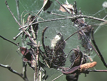 hatchlings of Cyrtophora exanthematica from Okinawa.